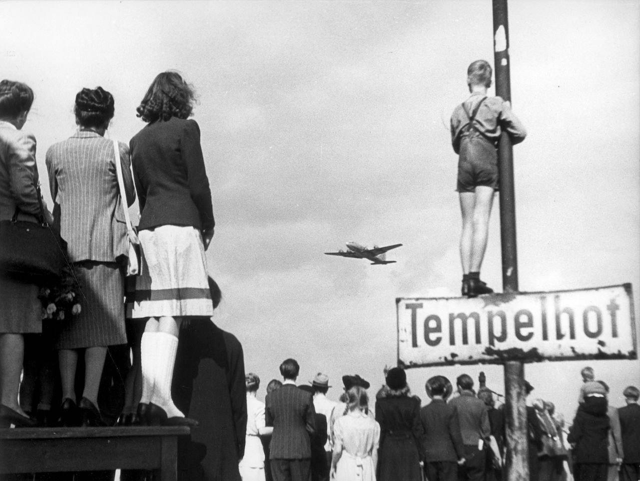 Berlin Civilians watching an airlift plane land at Templehof Airport, 1948